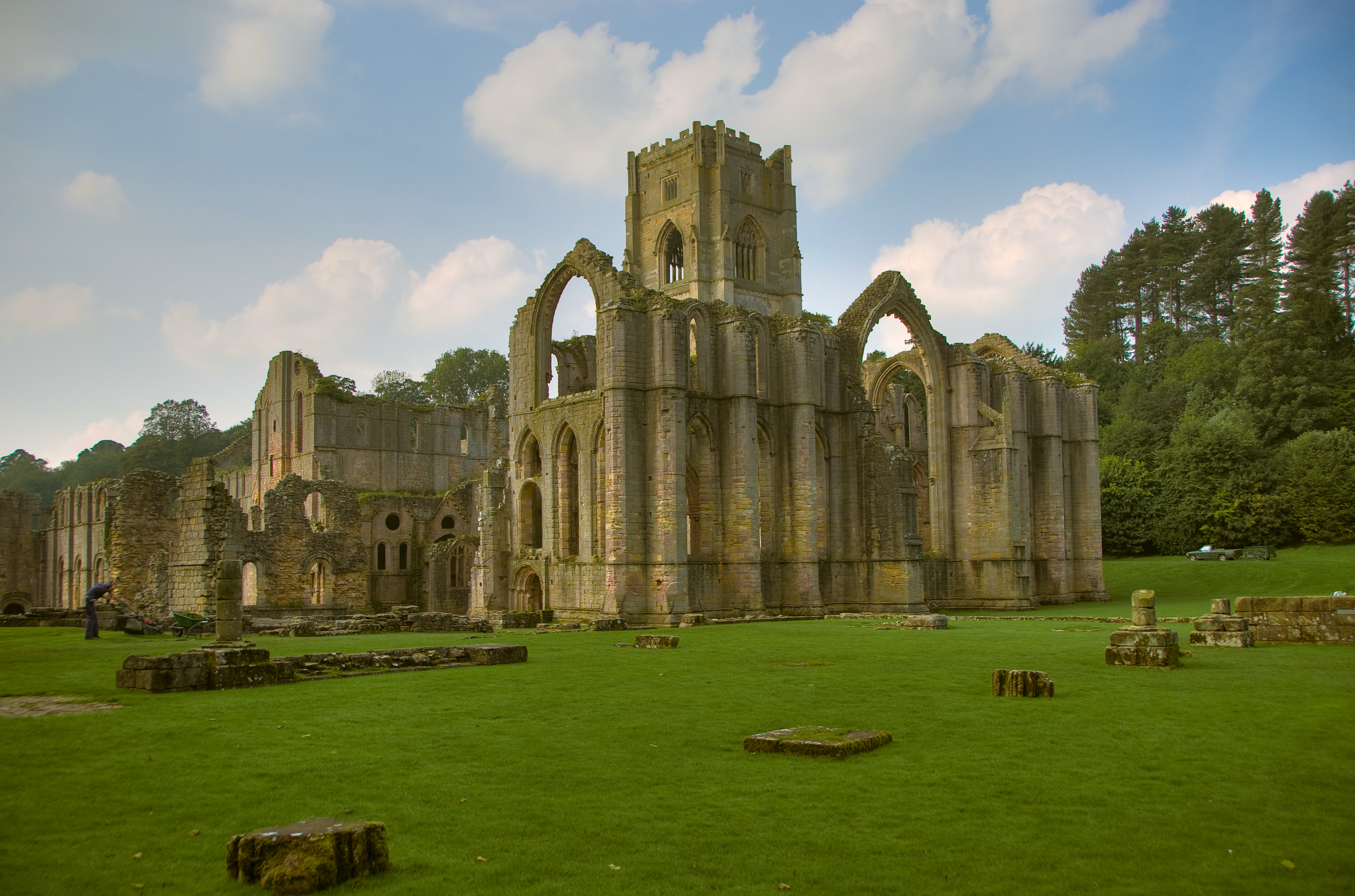 Fountains Abbey, North Yorkshire.